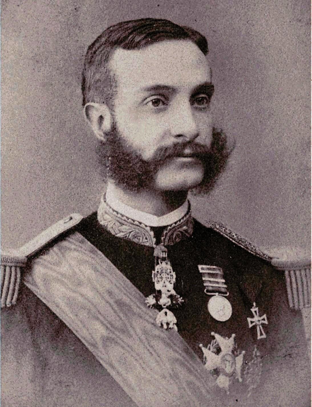 King Alphonso XII of Spain